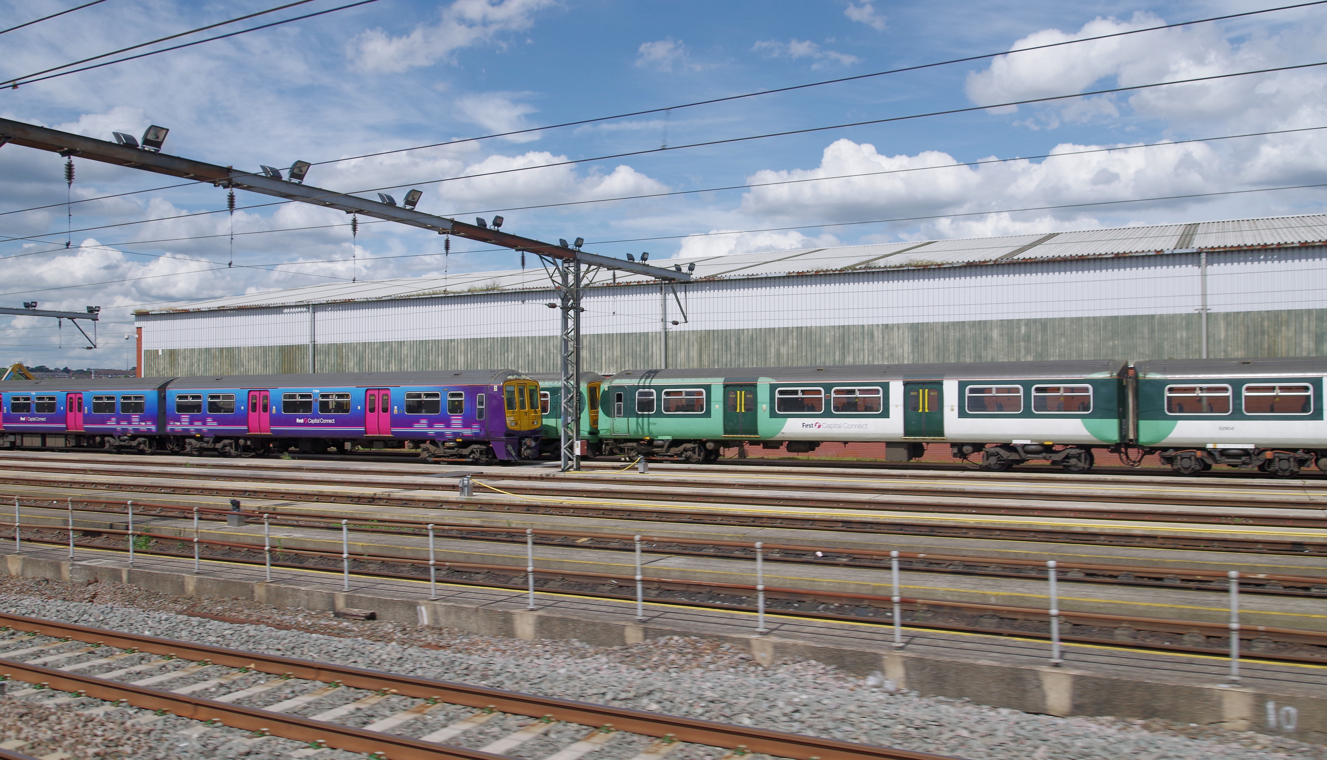 Several First Capital Connect class 319 EMUs stand in the sidings at Cricklewood Depot on the Midland Main Line.